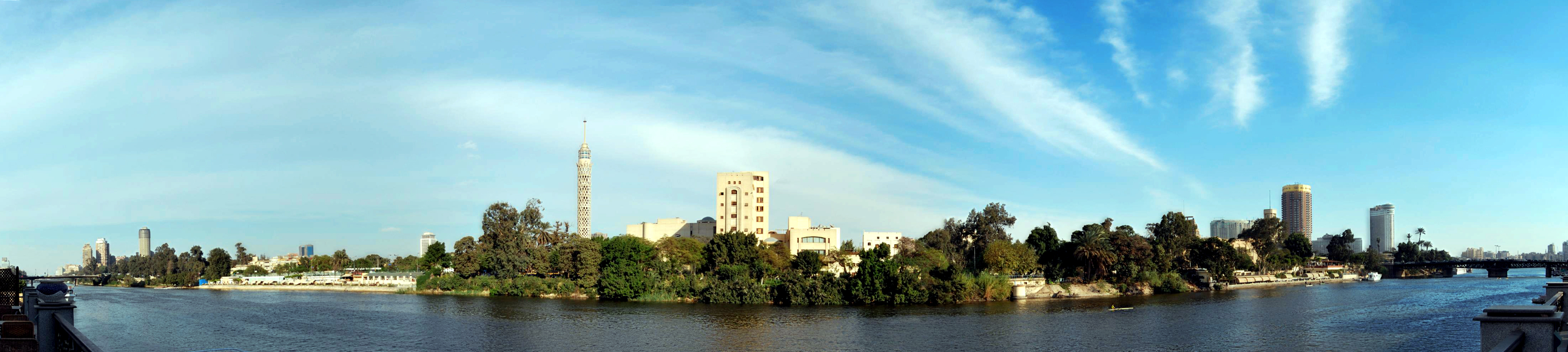 A panorama taken from the Judge's Club in Cairo, showing the Nile as well as Geziera. The Sofitel and Grand Hyatt Hotels can be seen in the far right of the photograph.